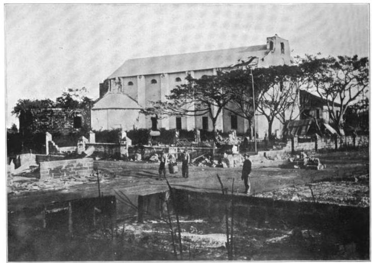 Caloocan Church, Phillippines, shortly after the attack by American forces on Feb 10 1899. Description from "Our Boys In the Phillipines" book: "Caloocan Church - Caloocan, six miles north of Manila, bombarded by guns of the "Charleston" and "Monadnock" and leveled to the ground by fire, was a sorry sight as the Twentieth Kansas regiment advanced. The insurgent lay dead in great numbers for it was here that the Kansans won their first great victory. What was a prosperous town was in a few moments wiped out of existence. The church was afterwards used as headquarters"